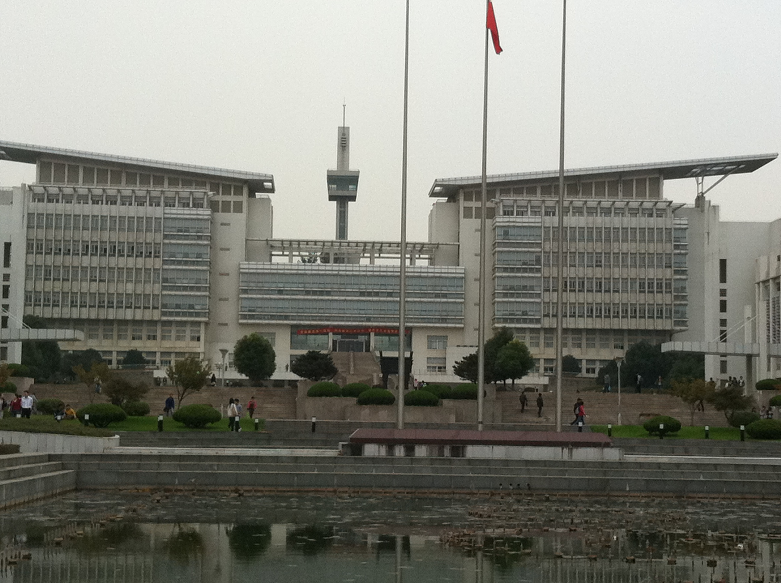 JingWen Library